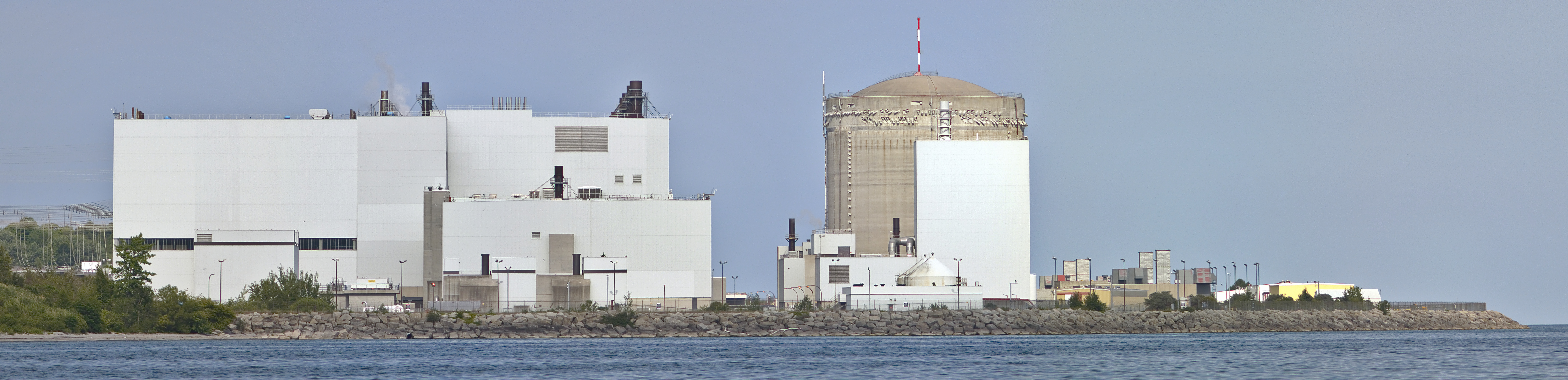 Darlington Nuclear Generating Station panorama.